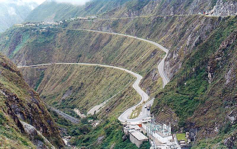 View on the Carpapata zone, Tarma, Peru.